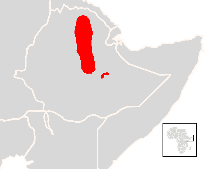 Gelada (Theropithecus gelada), range map, depending on the range map at IUCN red list